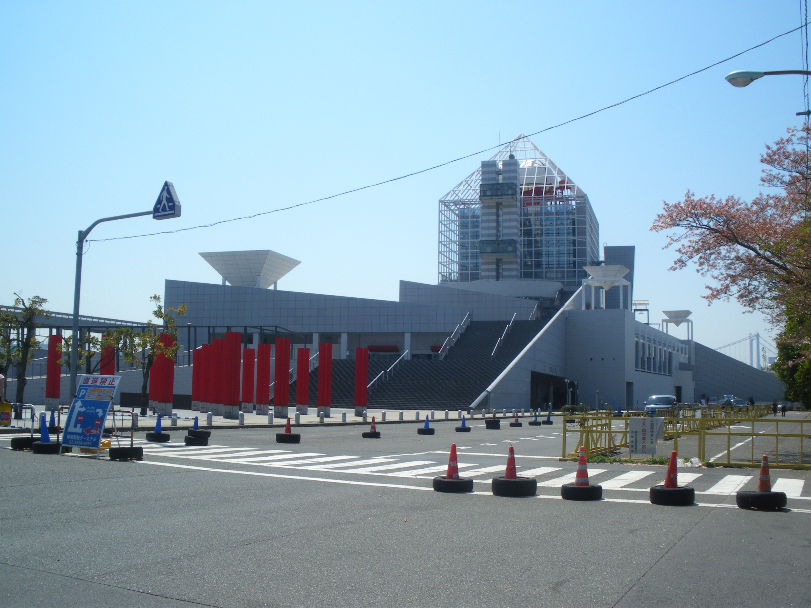 A photo of an entrance Harumi Passenger Ship Terminal.Chuo-ku,Tokyo,Japan.